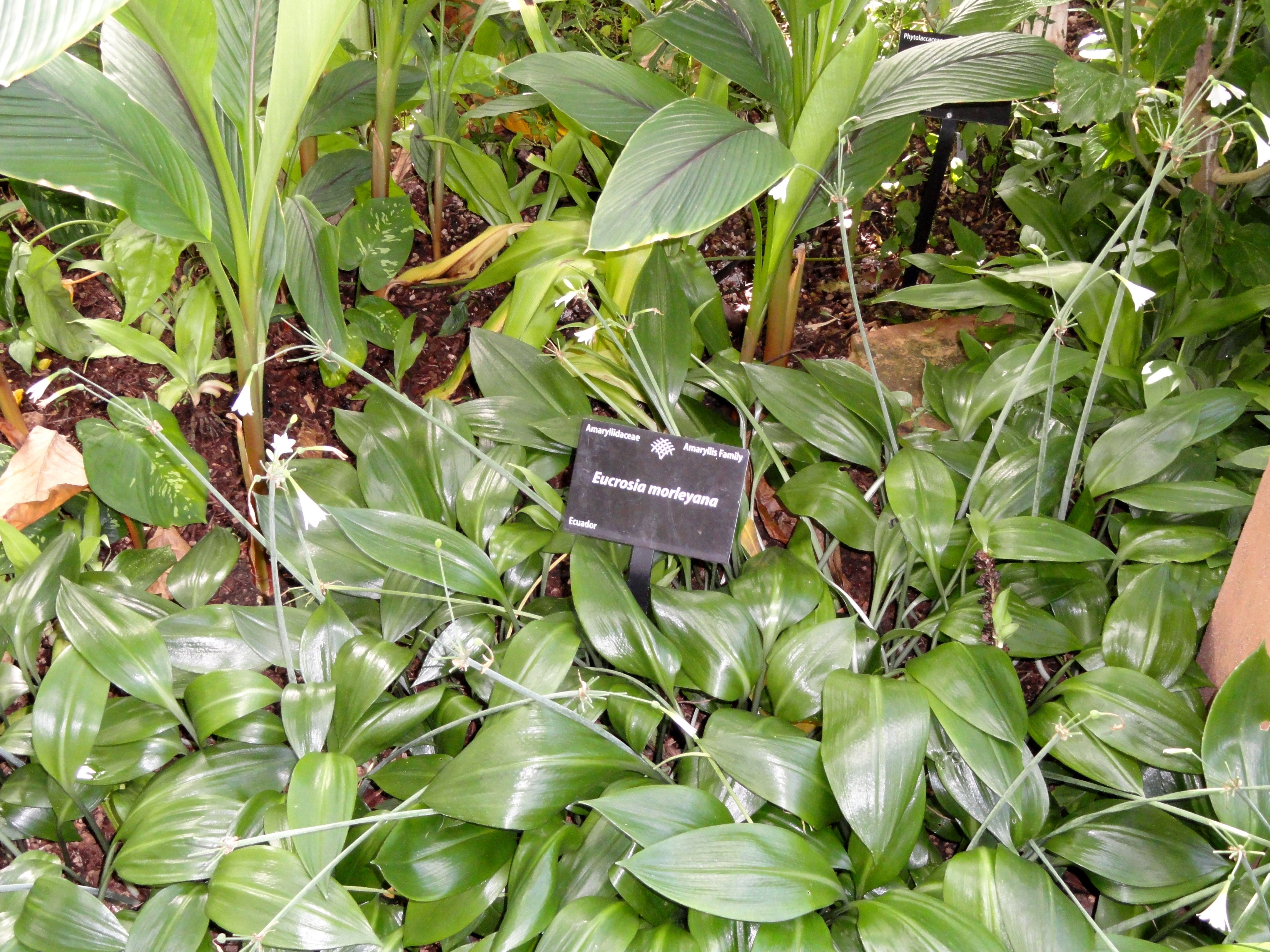 Botanical specimen in the Denver Botanic Gardens, 1007 York Street, Denver, Colorado, USA.